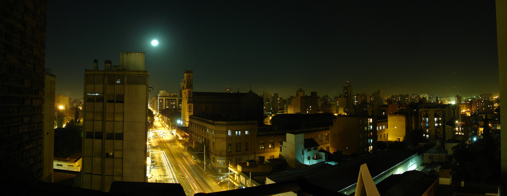 Cityscape from Alberdi neighborhood. Cordoba, Argentina.